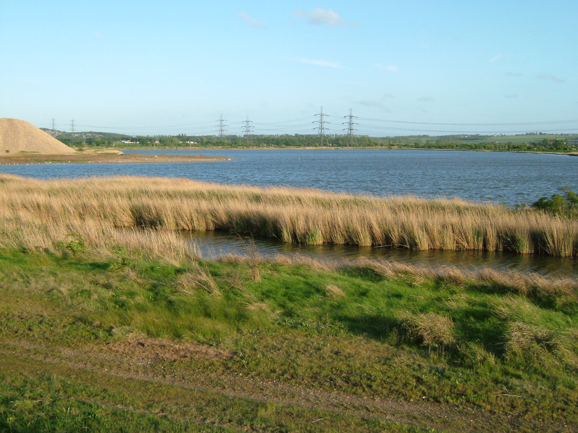 Cliffe Pools are important wetland sites within the North Kent Marshes. Here at TQ 715775 we see reeds, the pool, created by mineral extraction. To the right are the Higham marshes and behing the gravel pile, we can see the houses of Cliffe Woods.